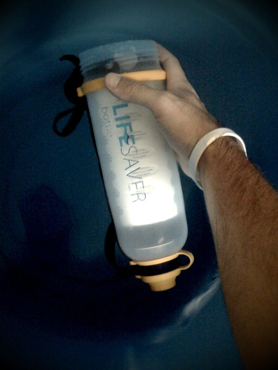 Photograph of the LifeSaver bottle.